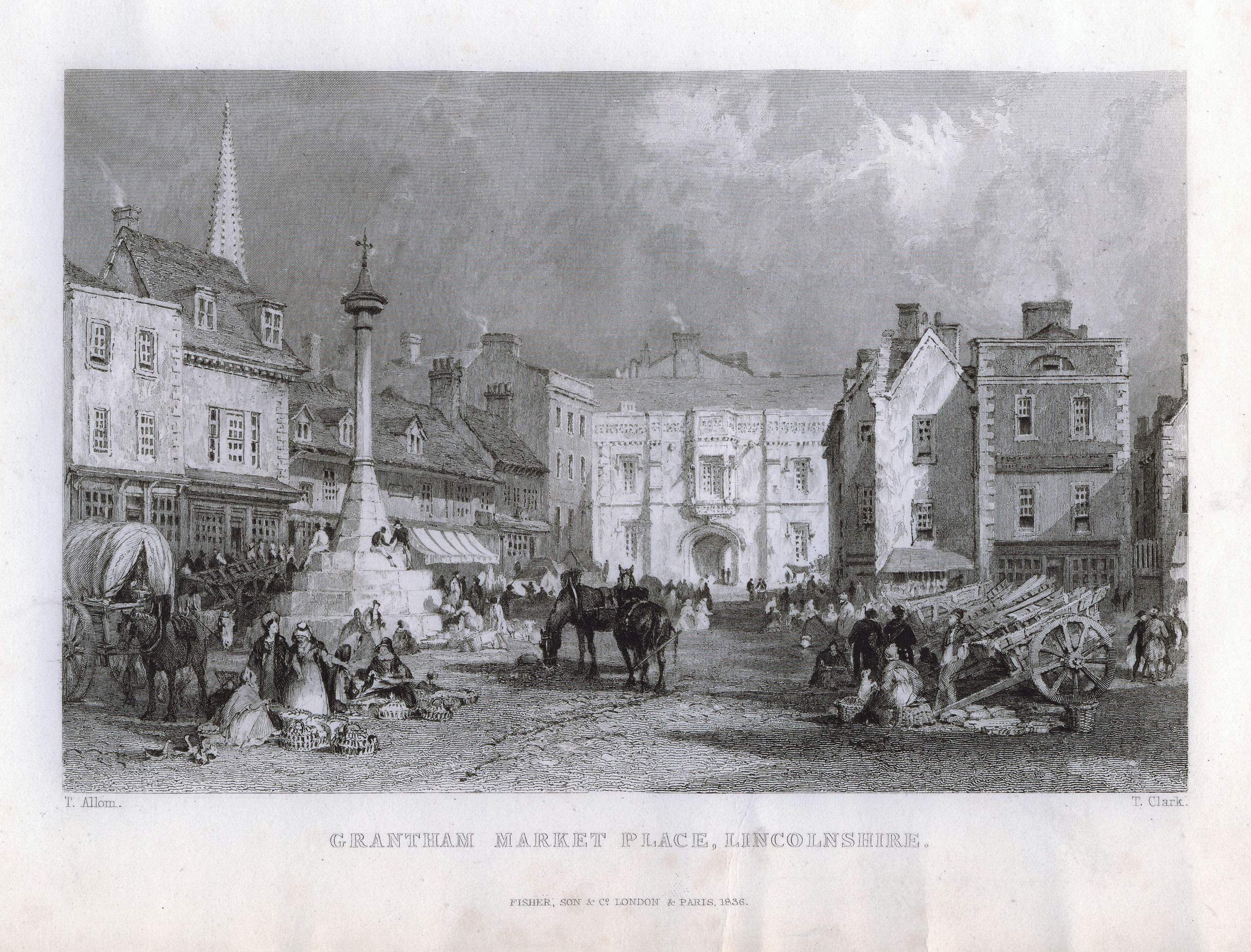 The Market Place with the Angel and Royal Hotel in 1836, at Grantham, Lincolnshire, England. Taken from an uploader owned print published by Fisher, Son & Co. Artwork by T. Allom and T. Clark.